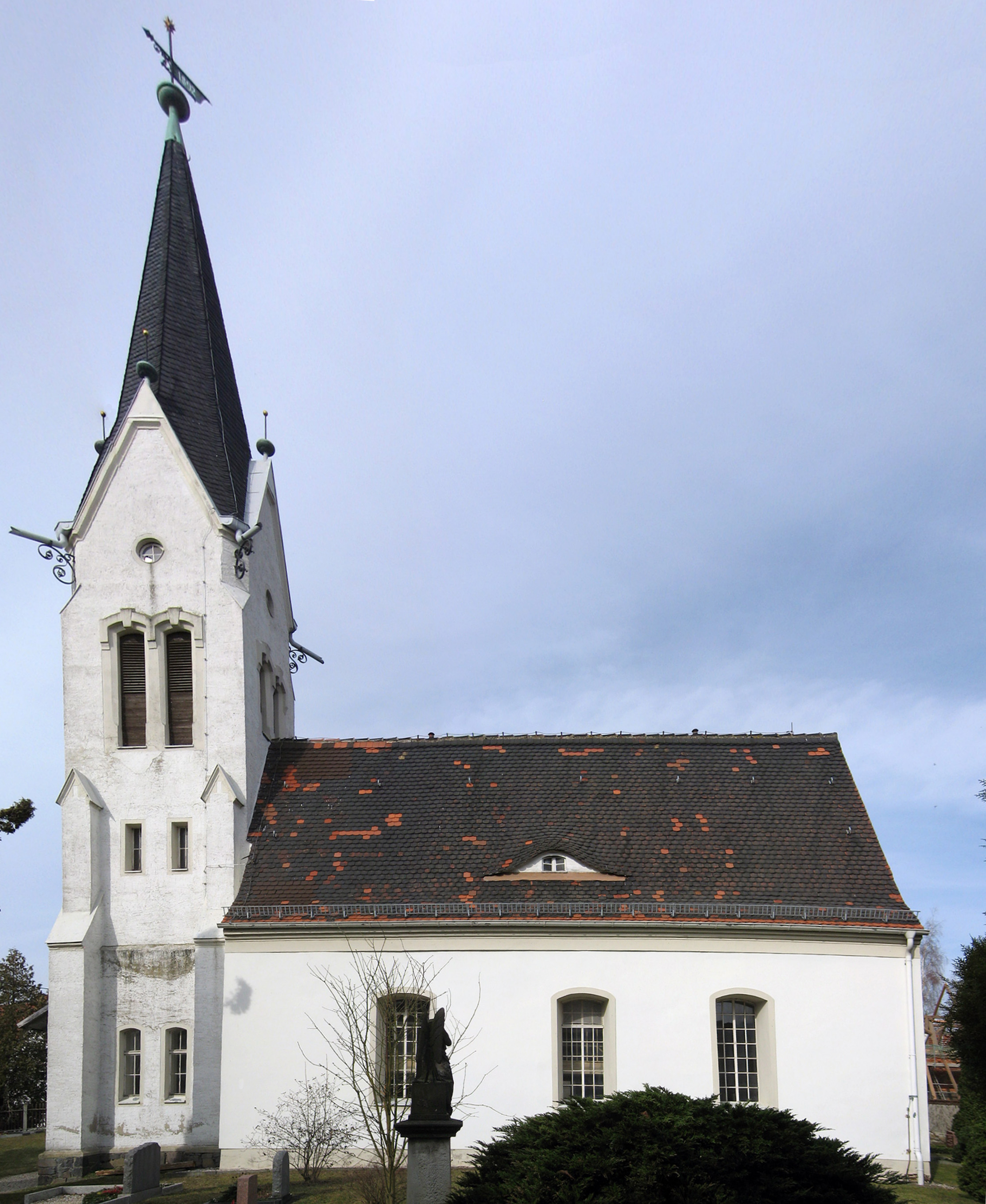 Church Gottscheina, Am Ring